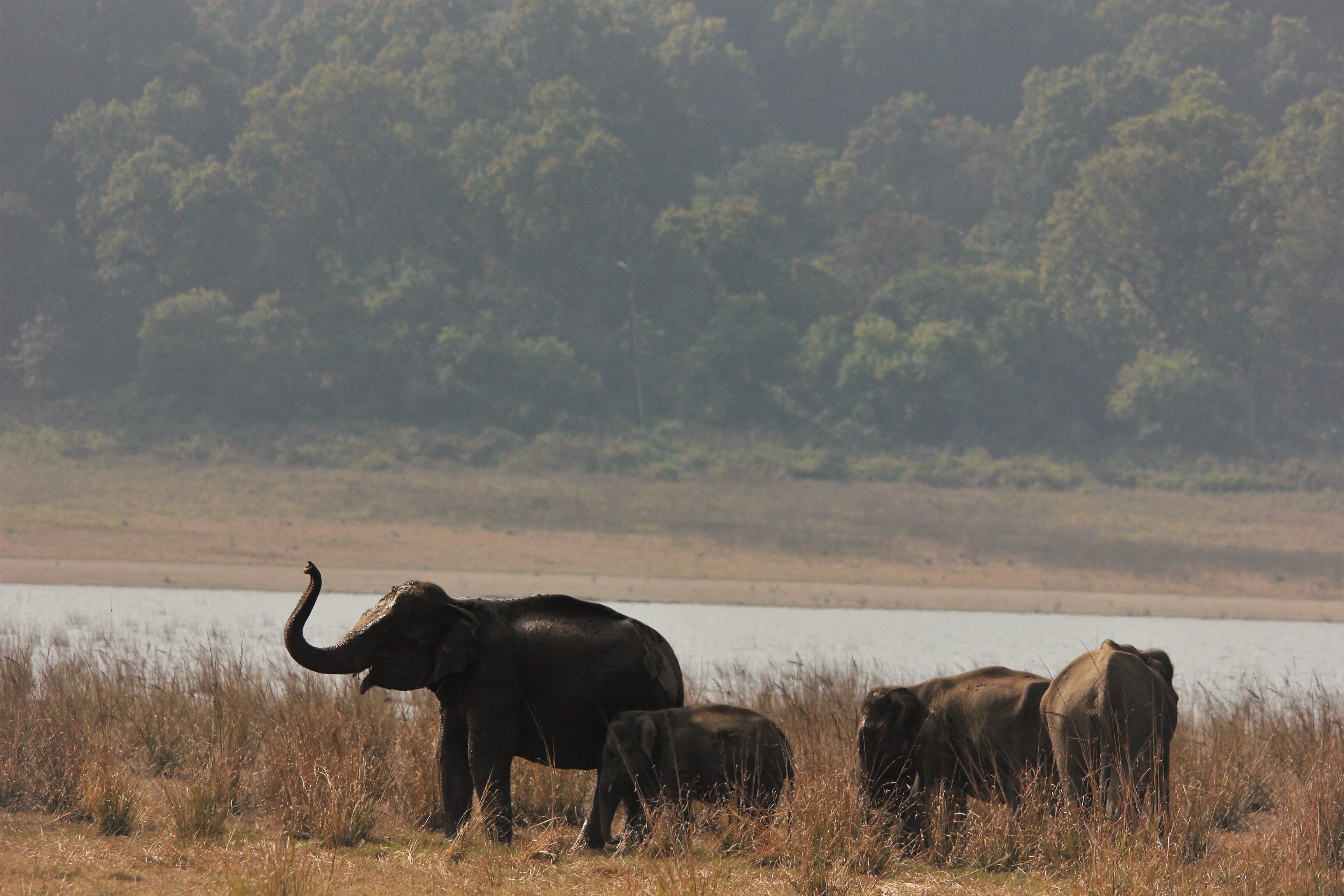 Elephant Family- Dhikala Zone, Bank of River Ramganga, Jim Corbett National Park